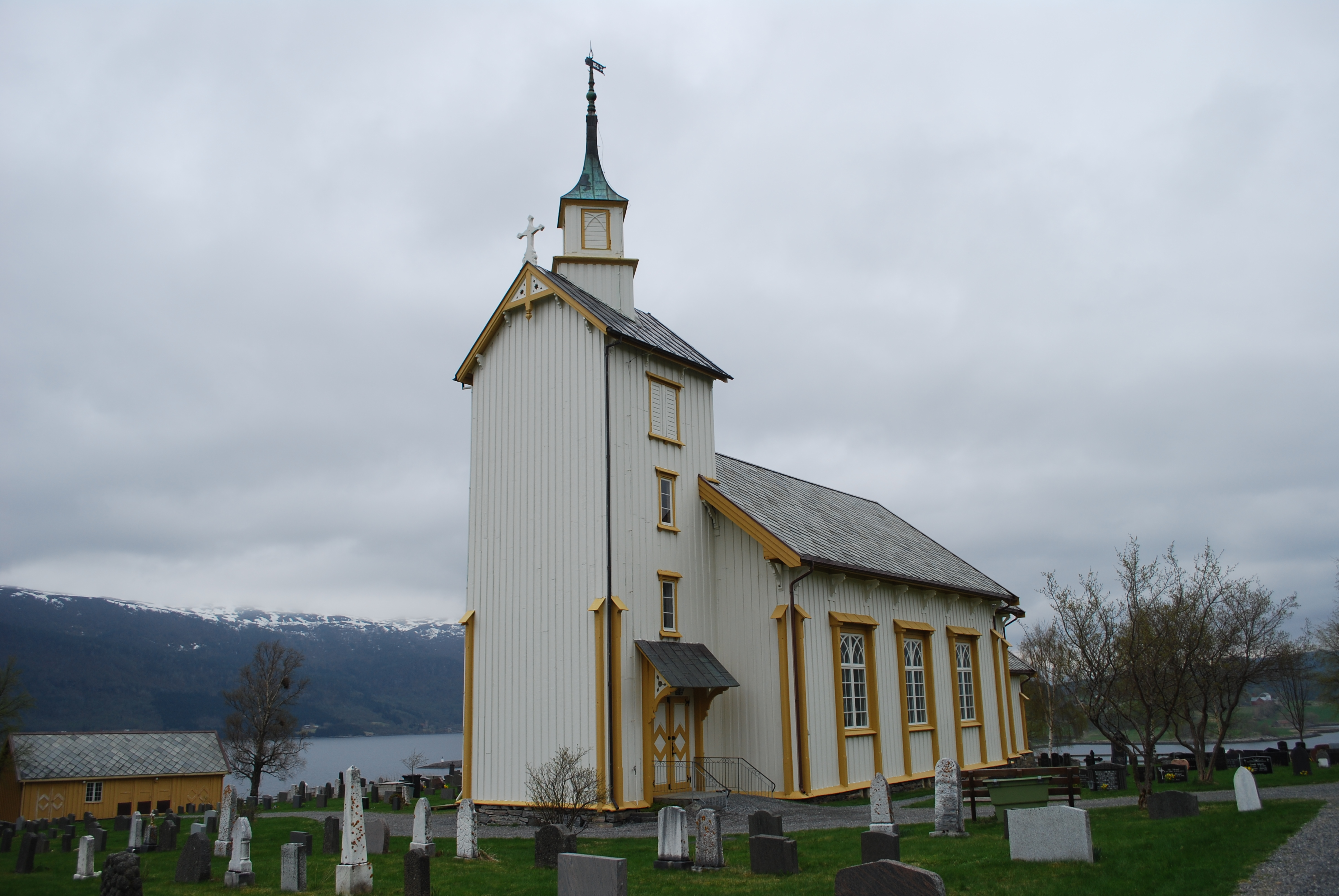 Valsøyfjord kirke in Halsa kommune, Møre og Romsdal, Norway.